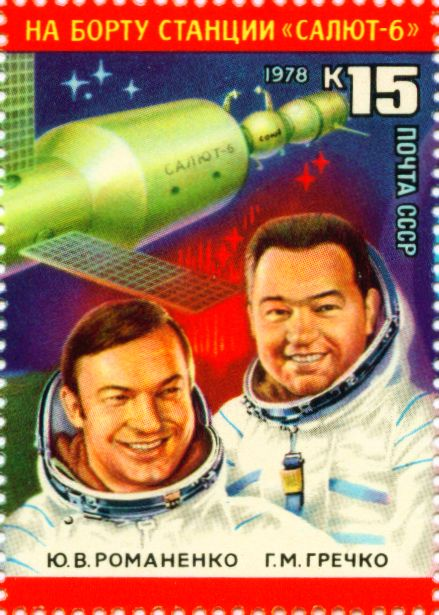 USSR postage stamp (1978): Salyut 6 - 96 days in space - Yu. V. Romanenko, G. M. Grechko